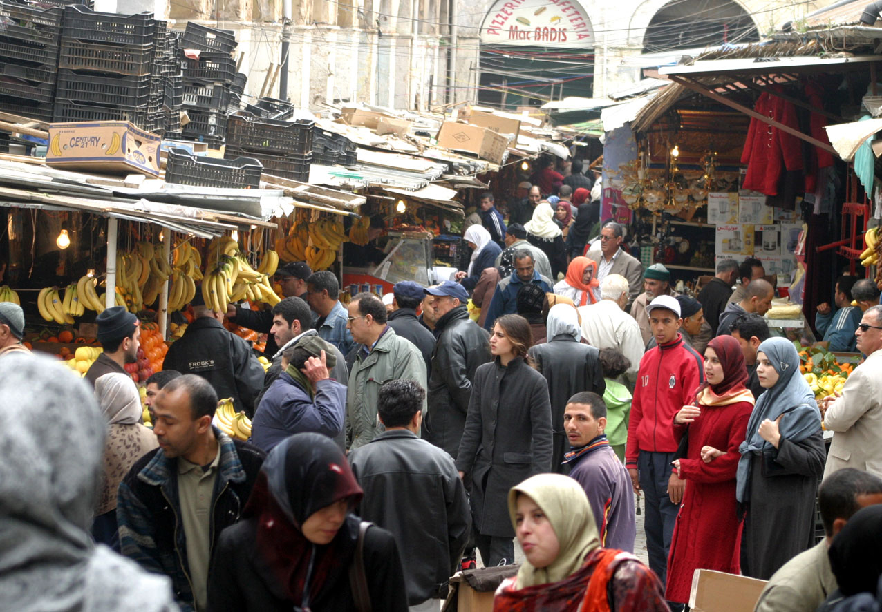 While market fluctuations are normal, prices are unusually high due to bad weather.